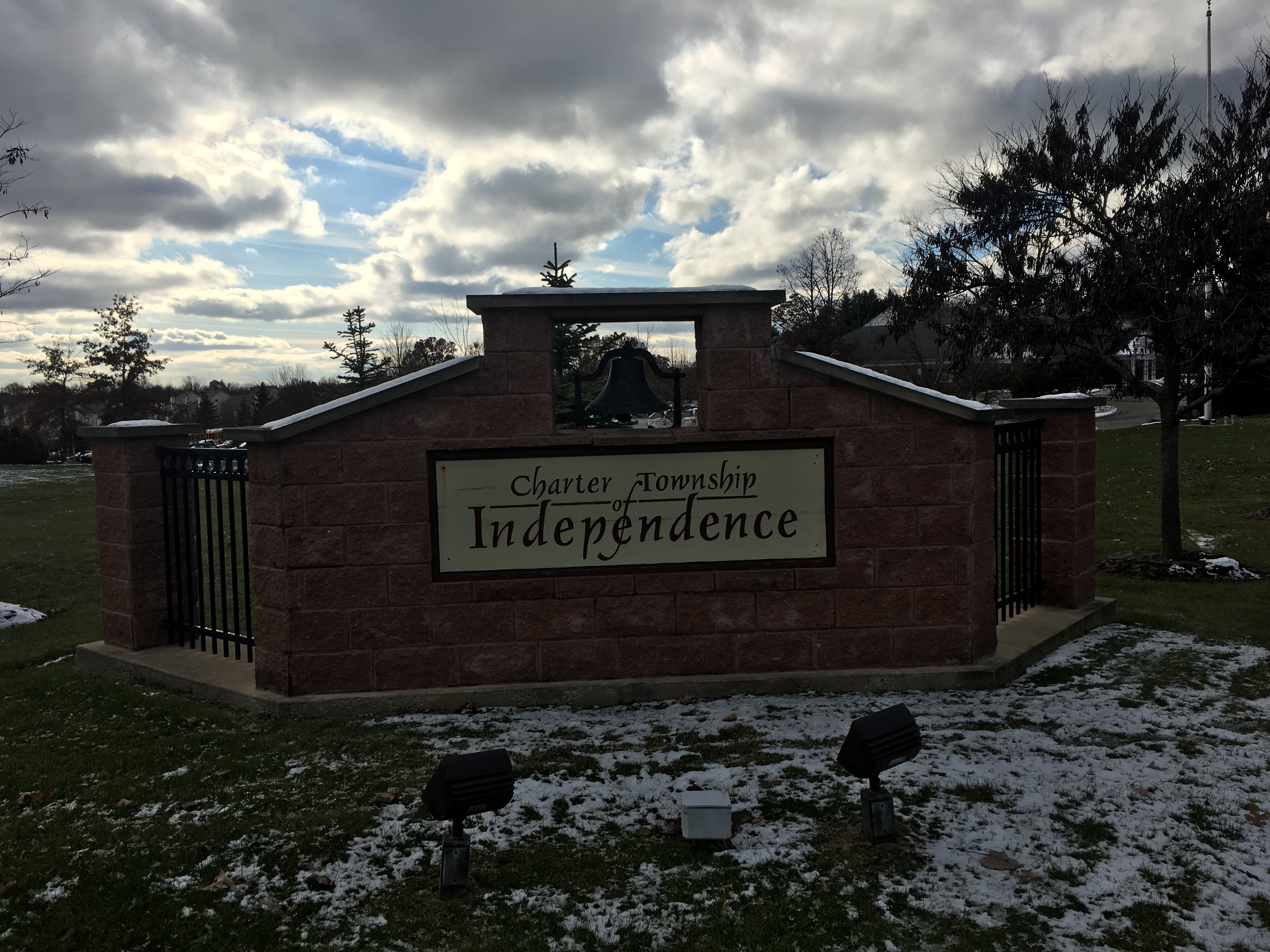 Sign of Independence Township, Michigan